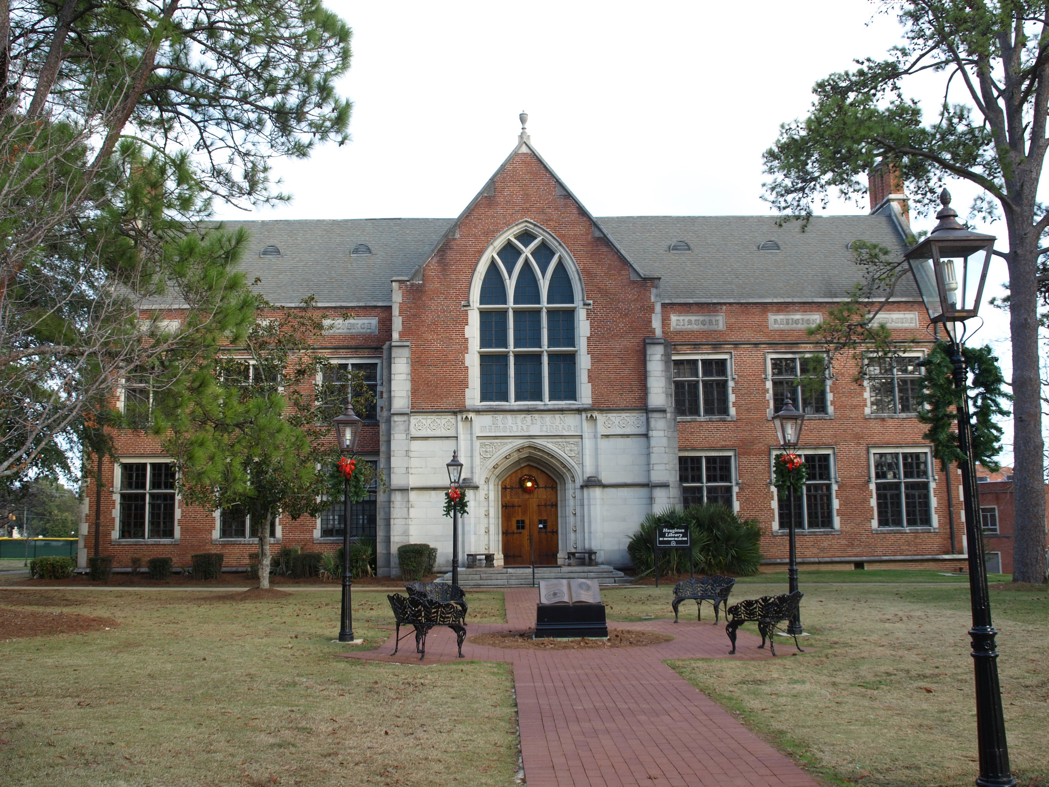 Houghton Memorial Library (built 1929) on the campus of Huntingdon College